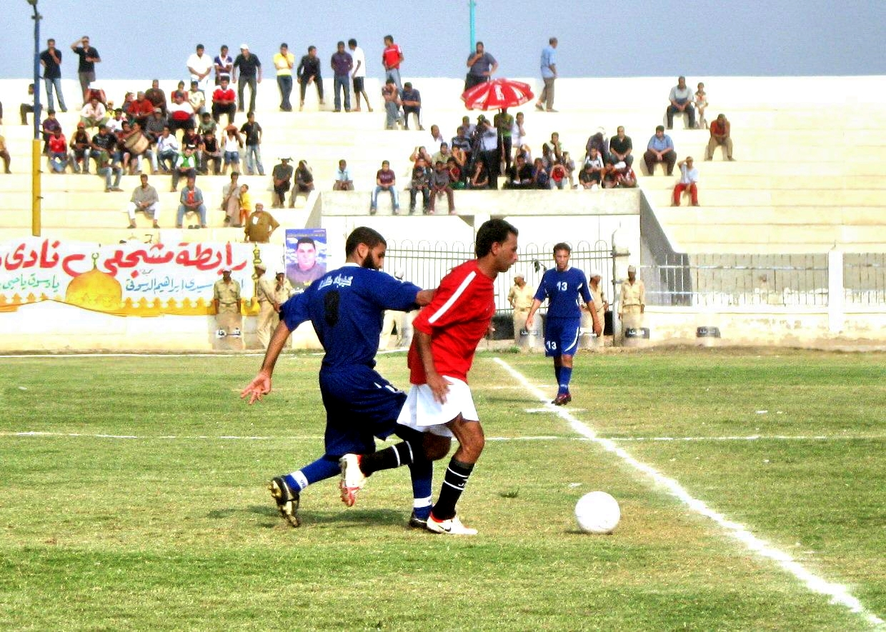 Match between "Desouk" & "Kahrabaa Talkha, Desouk Stadium.